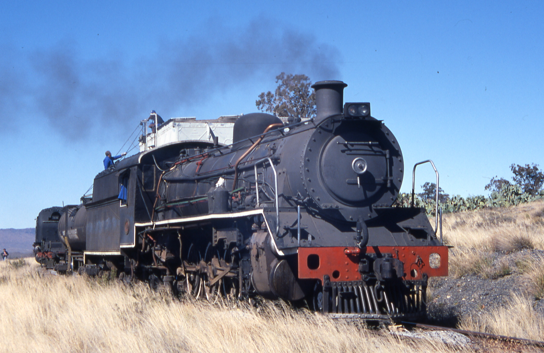 SAR Class 19B 1412 (4-8-2) Builder's Number: Berliner 9838 Tender: Type MR Location: Blouwater, Eastern Cape